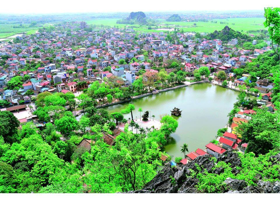 Thầy Temple in Quoc Oai District, Hanoi